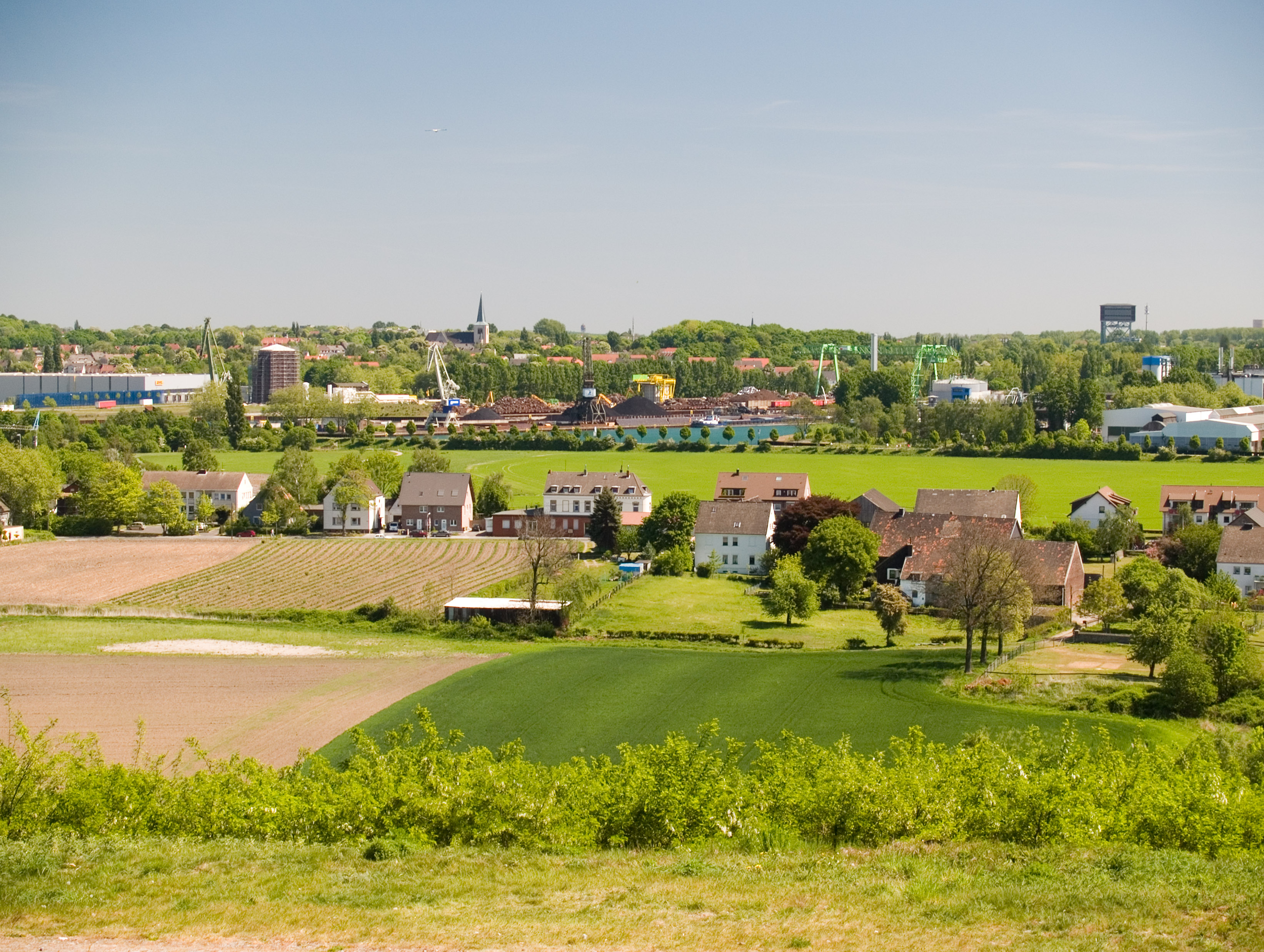 Dortmund, Germany, view to Deusen - part of town